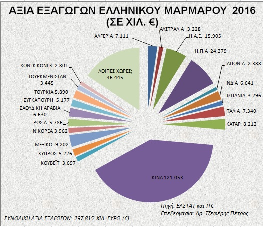 Value of greek marble exports in 2016 (in million euros)